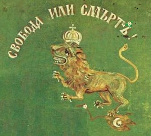 The banner of the first Bulgarian legion from 1862. It was destroyed by the Serbian authorities in 1867. A report is kept in Serbian archives to the Minister of the Interior, which fully describes the type of the banner. The report states that it was a green field with a lion standing on its hind legs with a crown on its head. The lion was standing on the Ottoman flag. On this green flag was written "Freedom or death". Some of the banners of the 1876 April rebellion give an approximate idea of what the flag of the First Bulgarian Legion looked like. I used such a banner as a model for creating this pattern.